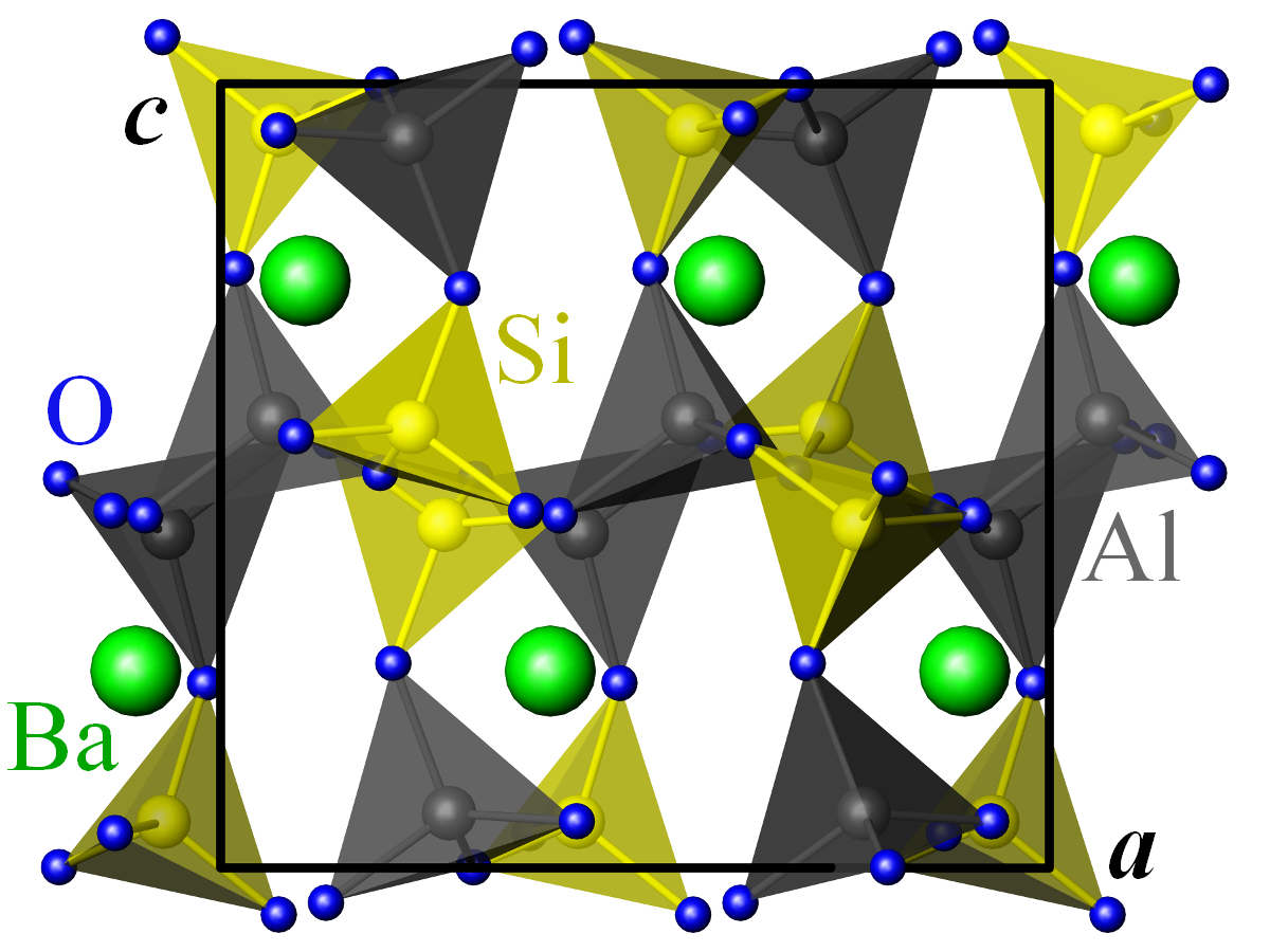 Crystal structure of paracelsian Ba[Al2Si2O8], monoclinic space group P21/a with strong orthorhombic pseudo-symmetry, projected onto the (a,c) plane. Data source: G. Chiari, G. Gazzoni, J.R. Craig, G.V. Gibbs, S.J. Louisnathan (1985) "Two independent refinements of the structure of paracelsian", American Mineralogist 70(9-10): 969-974 (available online).